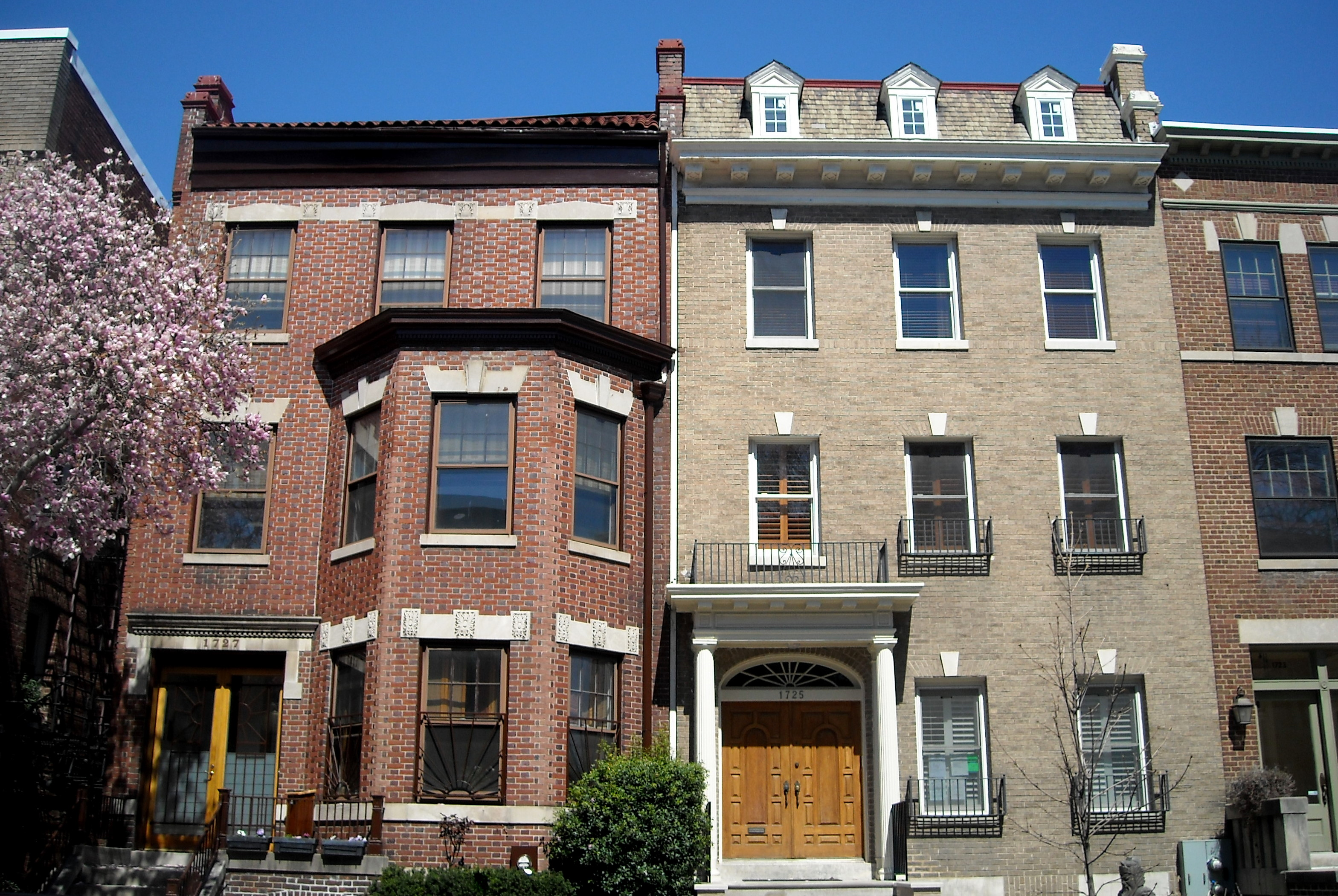 Row houses located at 1725 (right) and 1727 (left) S Street, N.W., in the Dupont Circle neighborhood of Washington, D.C. Built in 1915, the residence at 1725 S Street, N.W., is an example of Classical Revival architecture. The building's third floor currently serves as offices for Pause and Rewind, a medical spa. Built in 1911, the residence at 1727 S Street, N.W., – historically known as the Corrigan v. Buckley Site – is an example of Colonial Revival architecture. Previous occupants include U.S. Representative David J. Foster; in addition, the building previously served as offices for the African-American Relations House (also known as the Africa House) and the All African Students Union of the Americas. Both homes are designated as contributing properties to the Dupont Circle Historic District, listed on the National Register of Historic Places in 1978.